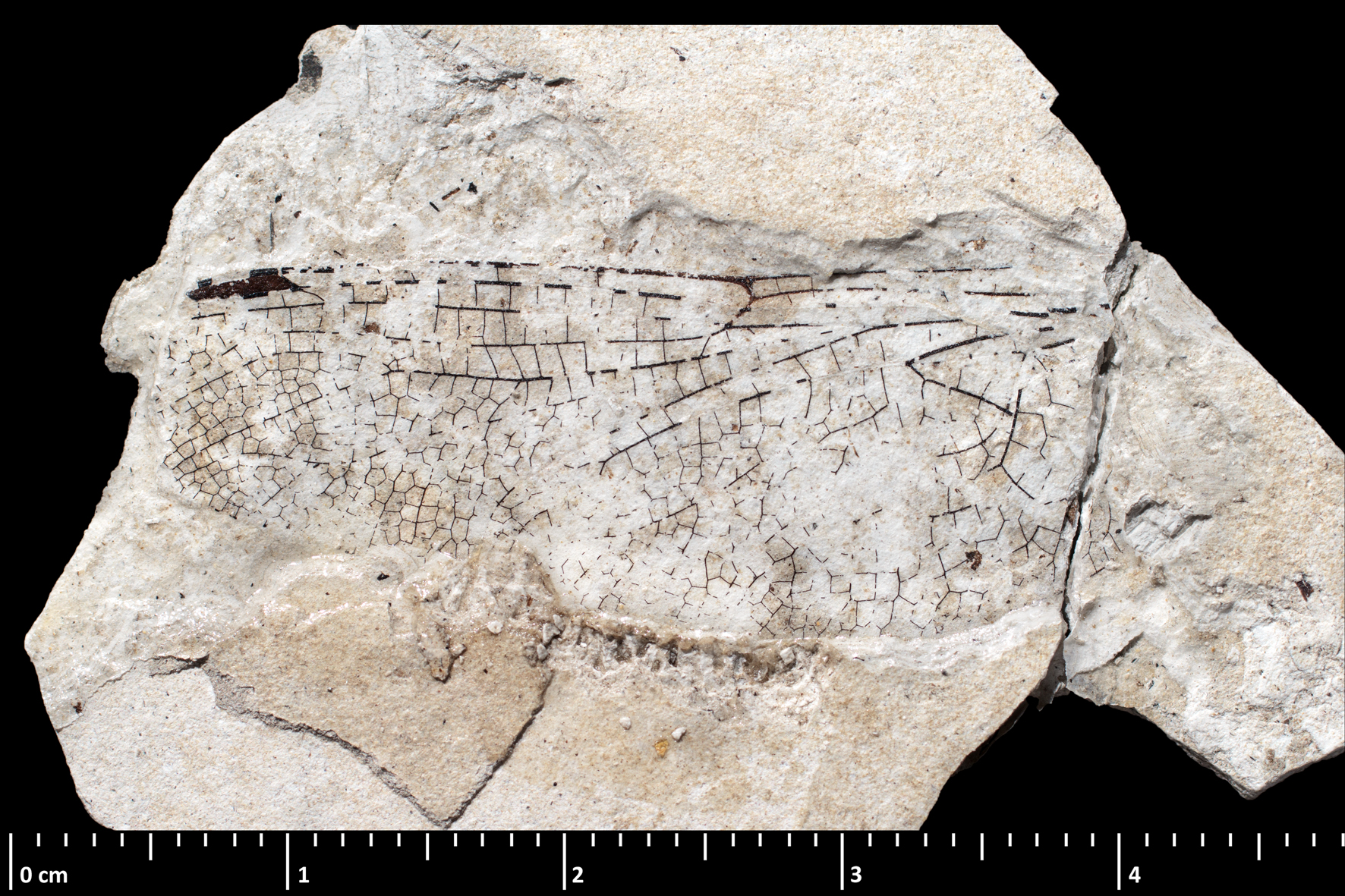 The Aeshna andancensis holotype specimen part side with direct lighting. Turolian, Miocene; Montagne d'Andance, Saint-Bauzile, Privas, France Muséum national d'Histoire naturelle specimen MNHN.F.R10403